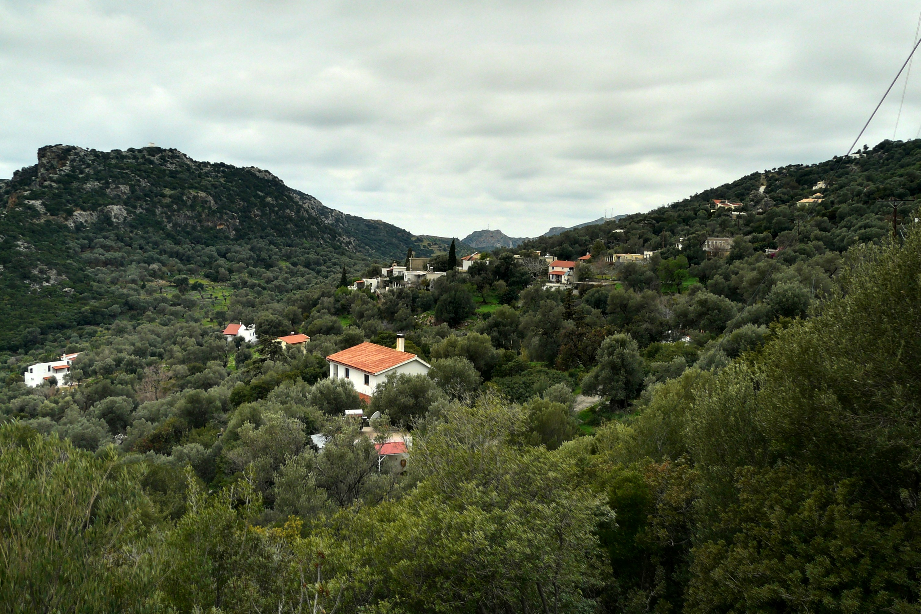 Sightseeing on Anidri, close to Palaiochora in Chania regional unit, Crete, Greece.